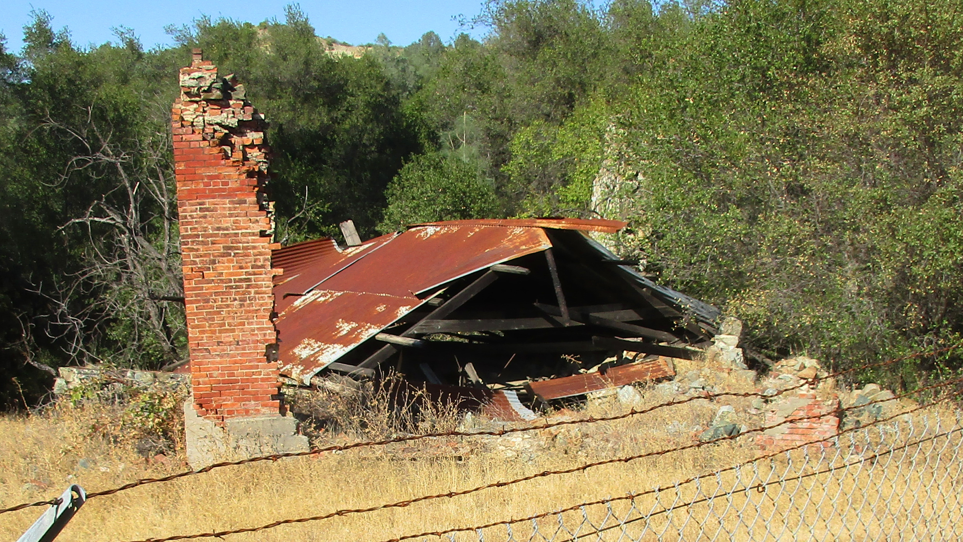 Timbuctoo